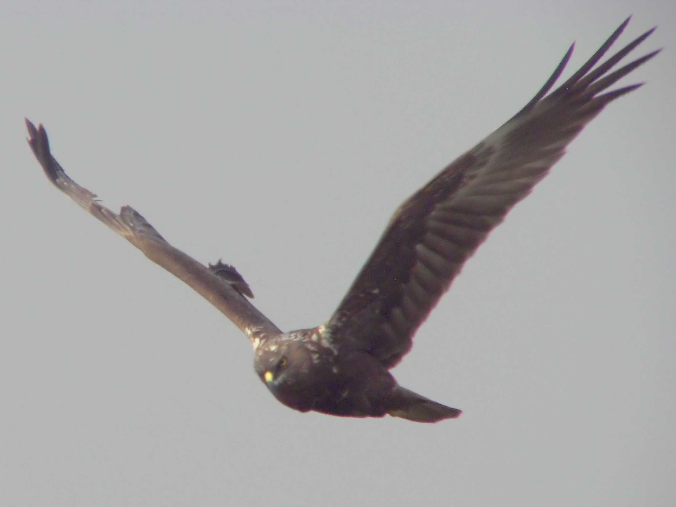 Circus spilonotus Saw at the wet lands.